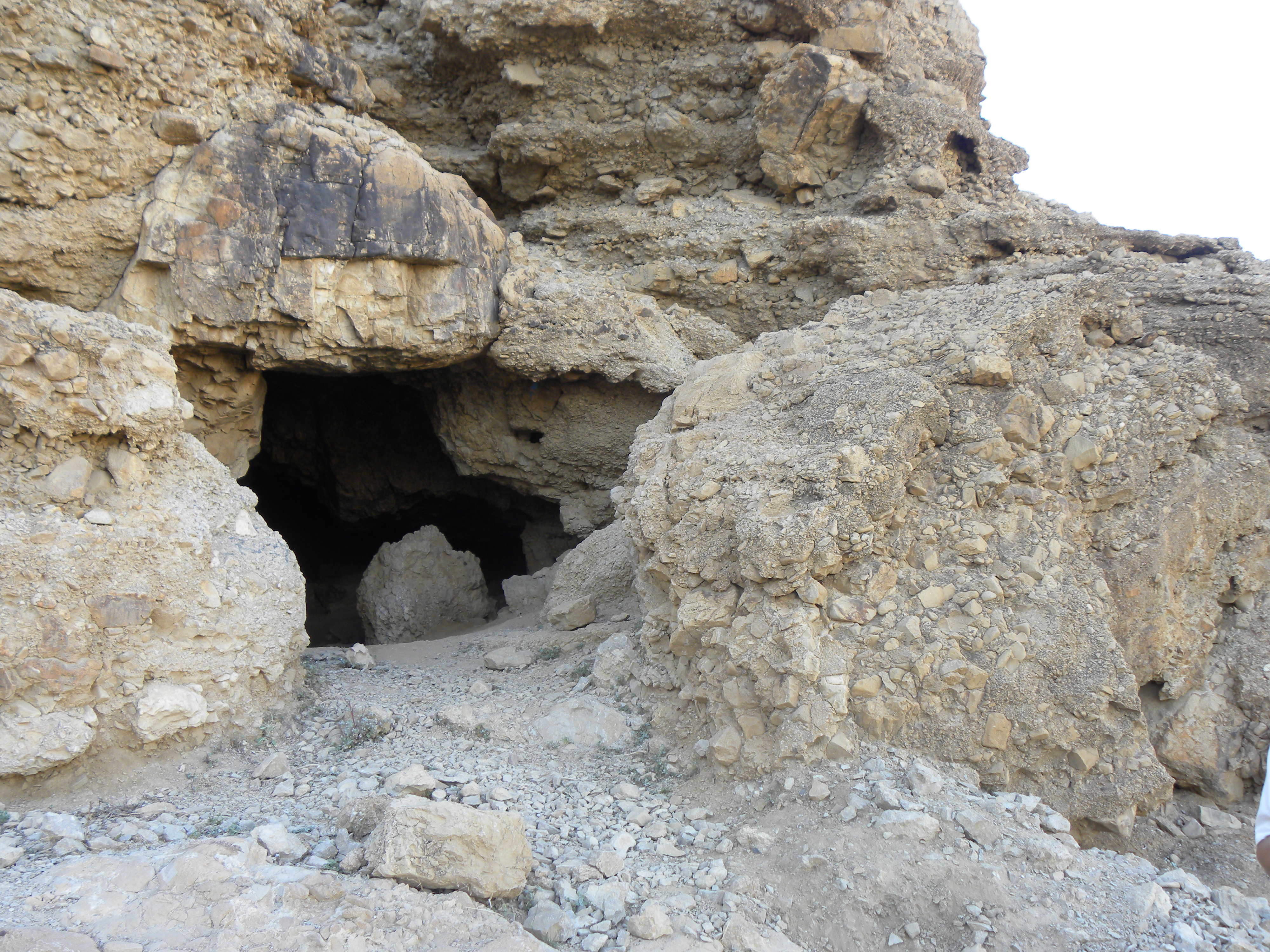 The entrance to Cave 11 found near Qumran where some of the Dead Sea Scrolls were discovered